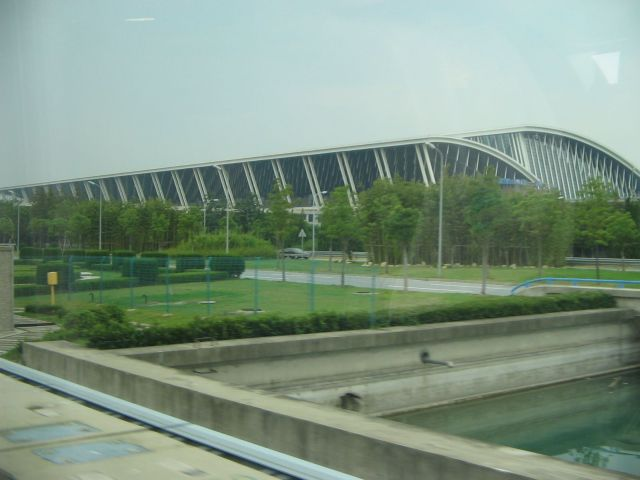 Shanghai Pudong International Airport (Exterior)